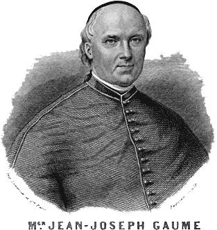 Portrait de Monseigneur Jean-Joseph Gaume (1802-1879)